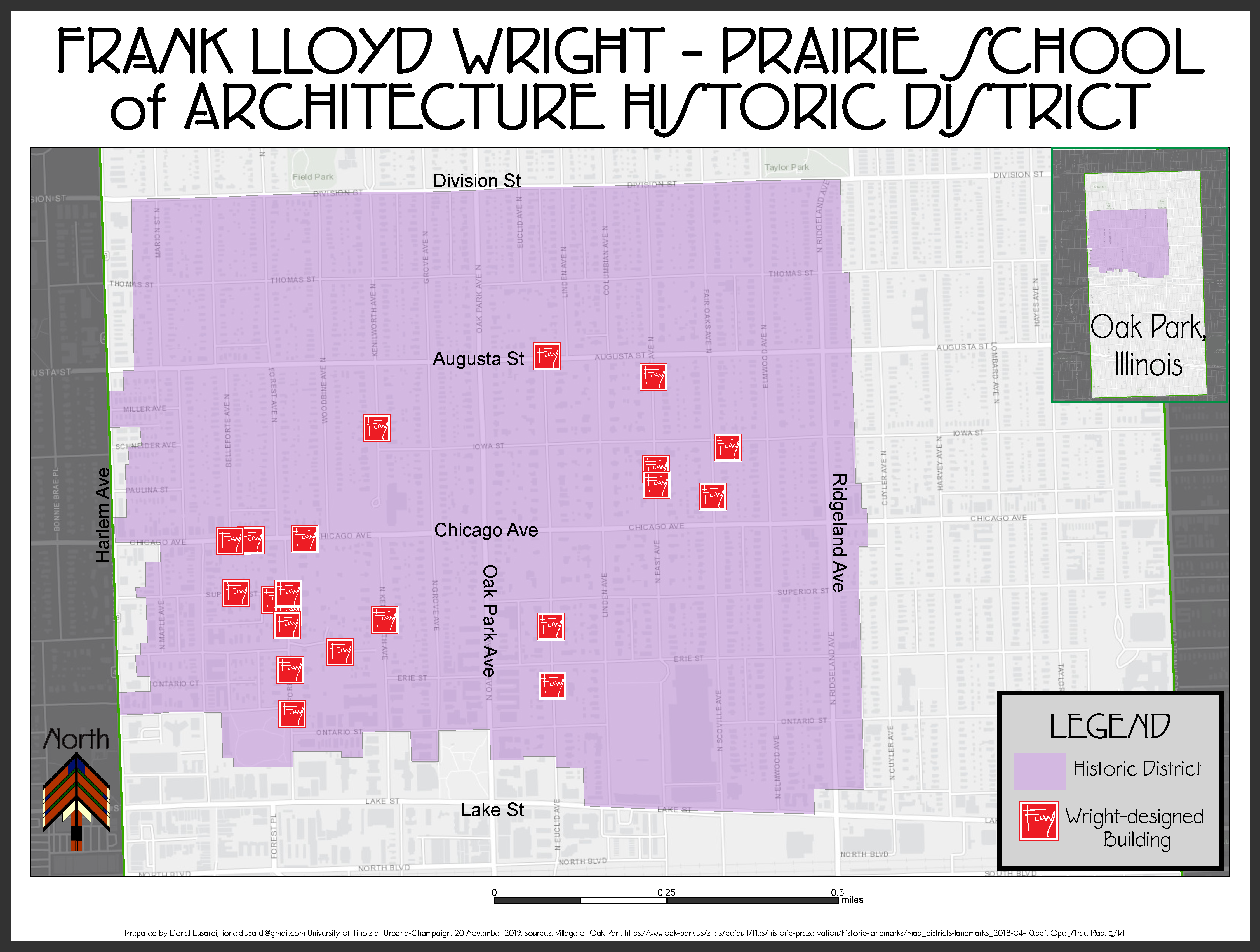 A map of the Frank Lloyd Wright-Prairie School of Architecture Historical District in Oak Park, Illinois